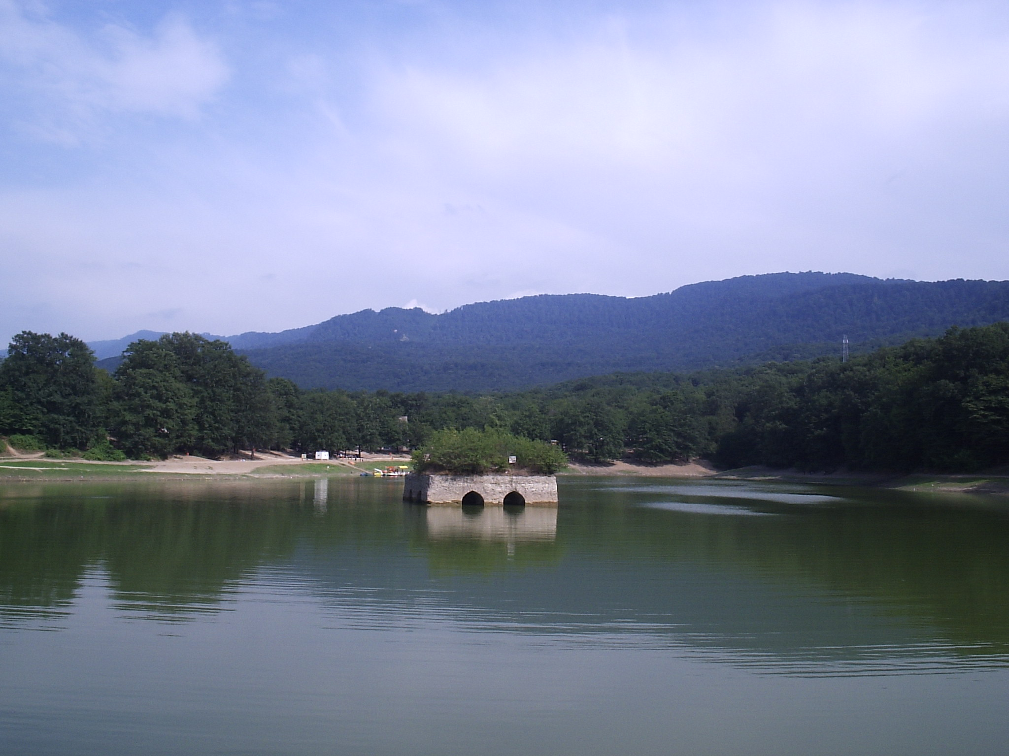 Abbas Abad lake and Palace, Behshahr, Mazandaran. این بنامتعلق به 400 سال قبل می باشد که به دستور شاه عباس صفوی ساخته شد در کنار این دریاچه دو برج وجود دارد که برای تنظیم فشار آب و بالا آمدن سطح در یاچه ساخته شده است . خود برجی که در درون دریاچه قرار دارد بسیار مرتفع بوده و قسمتی از آن ریخته شده است و این نوع خاص معماری صفویان از ملات و سنگی ساخته شدخه که طی 400 سال سالم باقی مانده است.نوع این ملات ساروچ می باشد که اگر به آن آب نرسد ترگ برداشته و و فرو می ریزد.شما را به بازدید از این بنای تاریخی و شهرستان مهمان نوازمان شهرستان بهشهر دعوت می کنم.